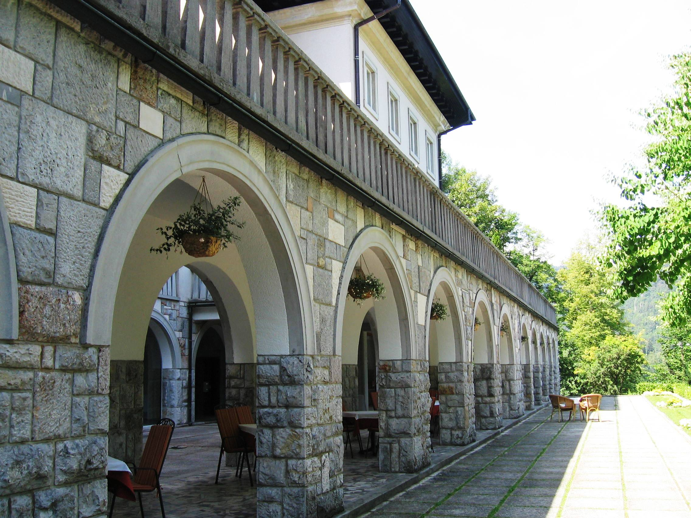 Villa Bled, Bled, Slovenia